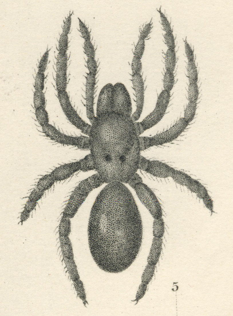 Spider diagnostic drawings by Nicholas Marcellus Hentz - Plate 1 5. Mygale unicolor (now Antrodiaetus unicolor).